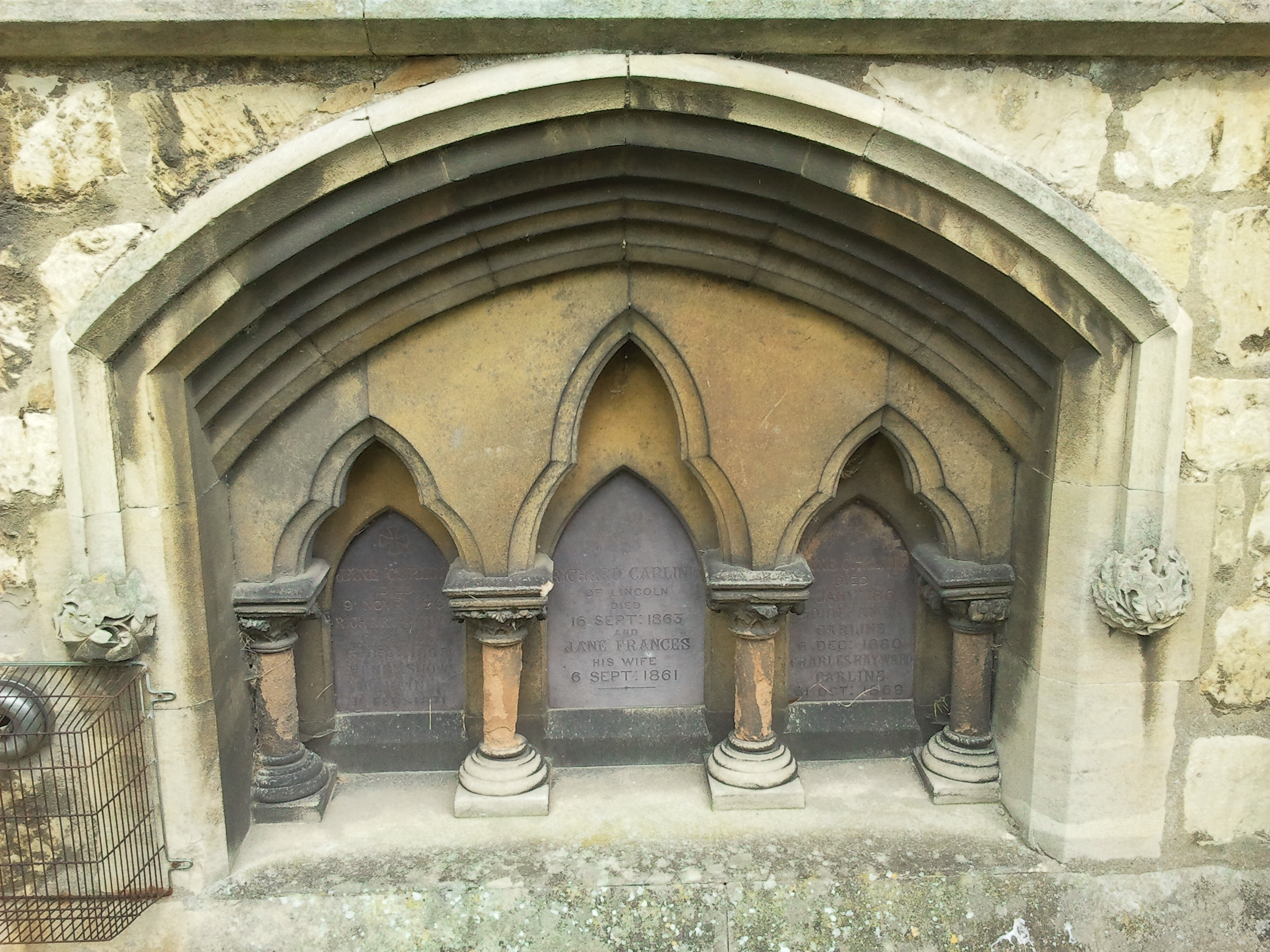 Memorial to 19th century family shown on Skellingthorpe's St Lawrence's Church.